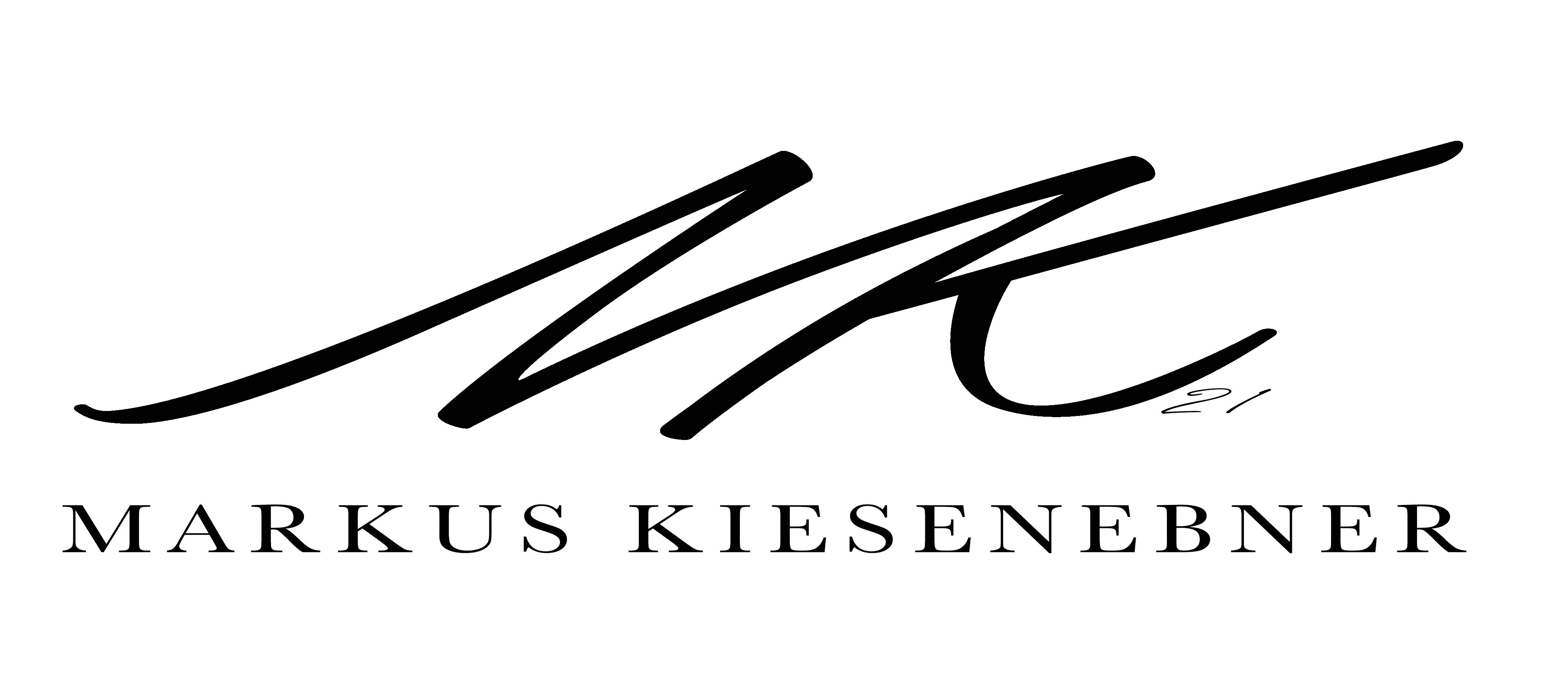 Dubai